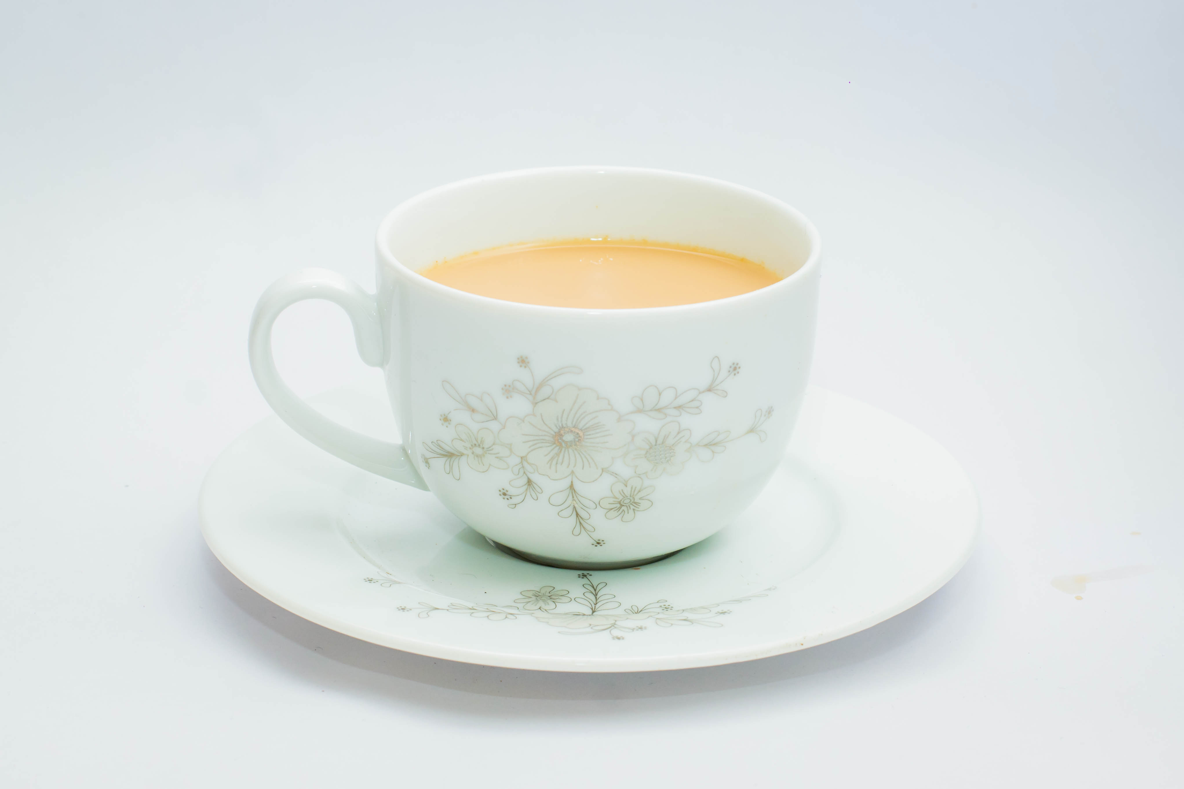 Milk Tea